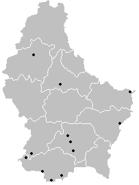 A map of cantons of Luxembourg after mergers of 2006-01-01, with locations of teams in the Luxembourg National Division in season 2005-06 marked.